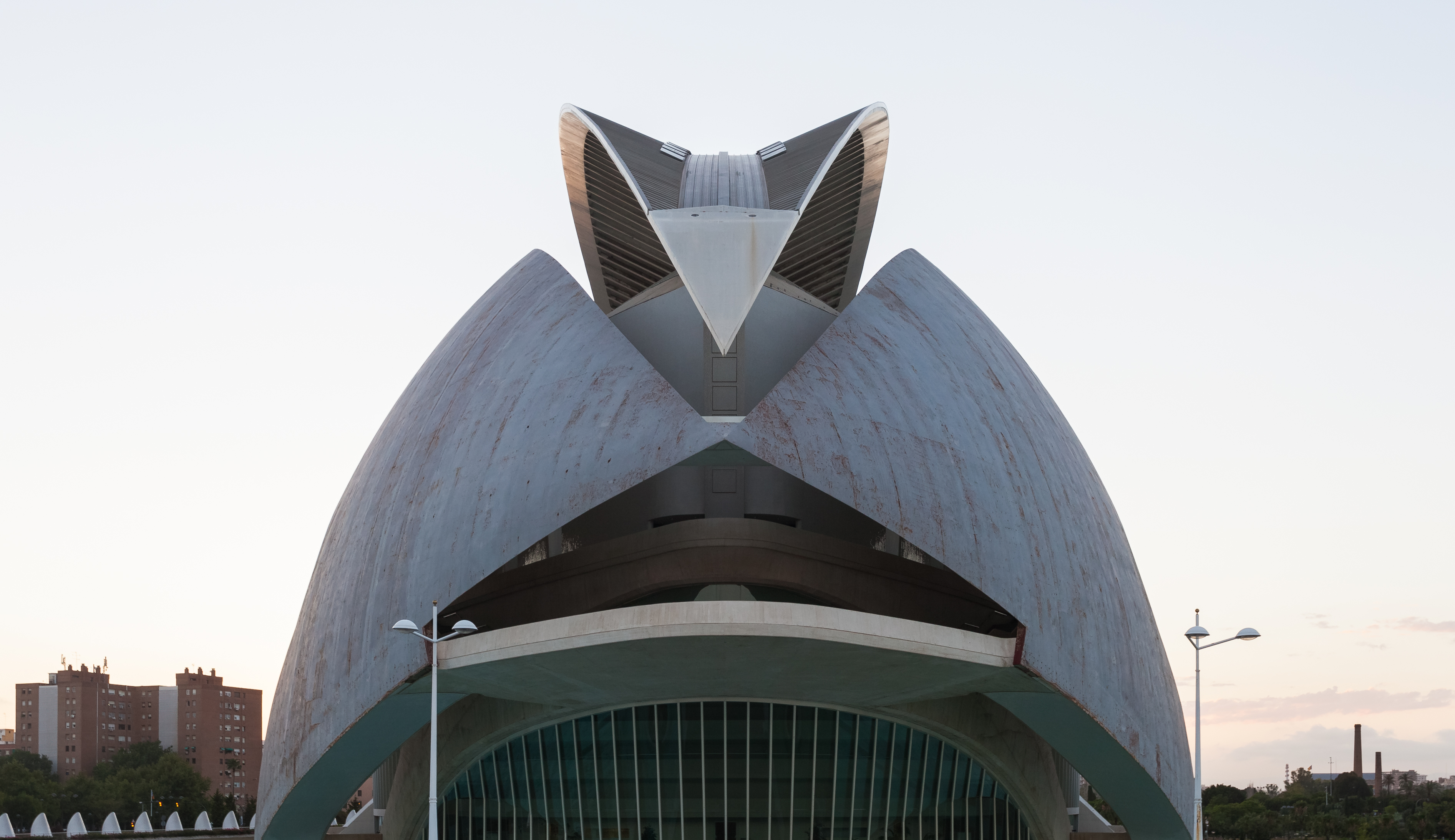 Arts Palace Queen Sophie, City of Arts and Sciences, Valencia, Spain